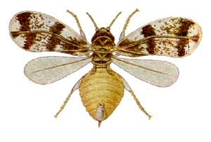 Sugarcane whitefly. Neomaskellia bergii (Hemiptera:Aleyrodidae)